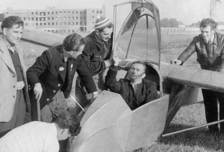 Spalinger S15 at Fürth Industrieflughafen 1957